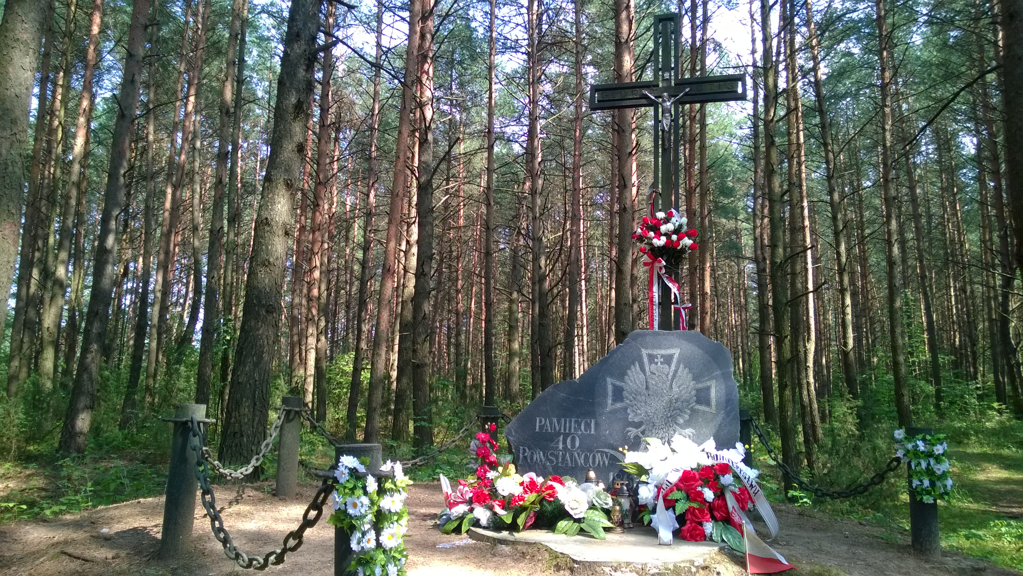 Masty District, Belarus